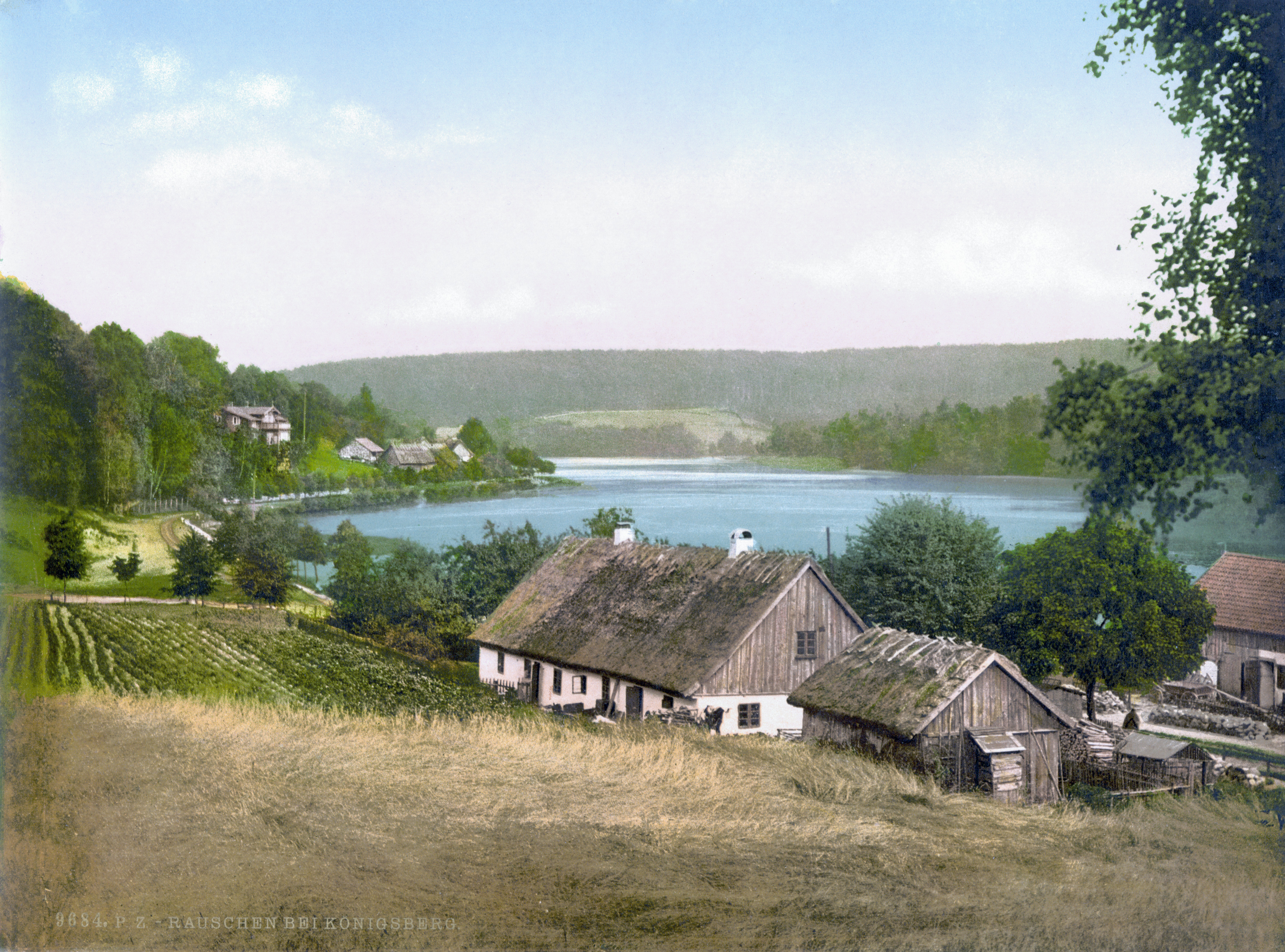 Svetlogorsk ~ 1900